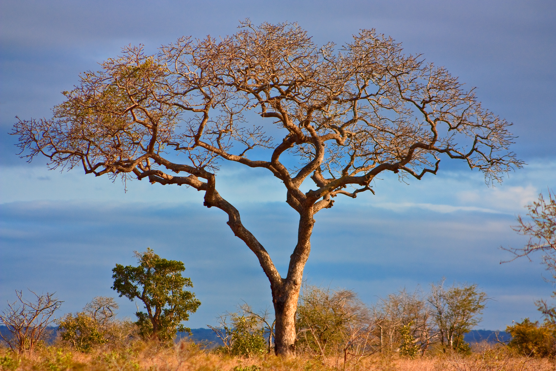 Marula tree near Skukuza in the southern Kruger National Park, Mpumalanga, South Africa Landscape scenery from Kruger National Park, South Africa. HDR composite from multiple exposures. This photo is released under a standard Creative Commons License - Attribution 3.0 Unported. It gives you a lot of freedom to use my work commercially as long as you credit and link back to the same free image from my website